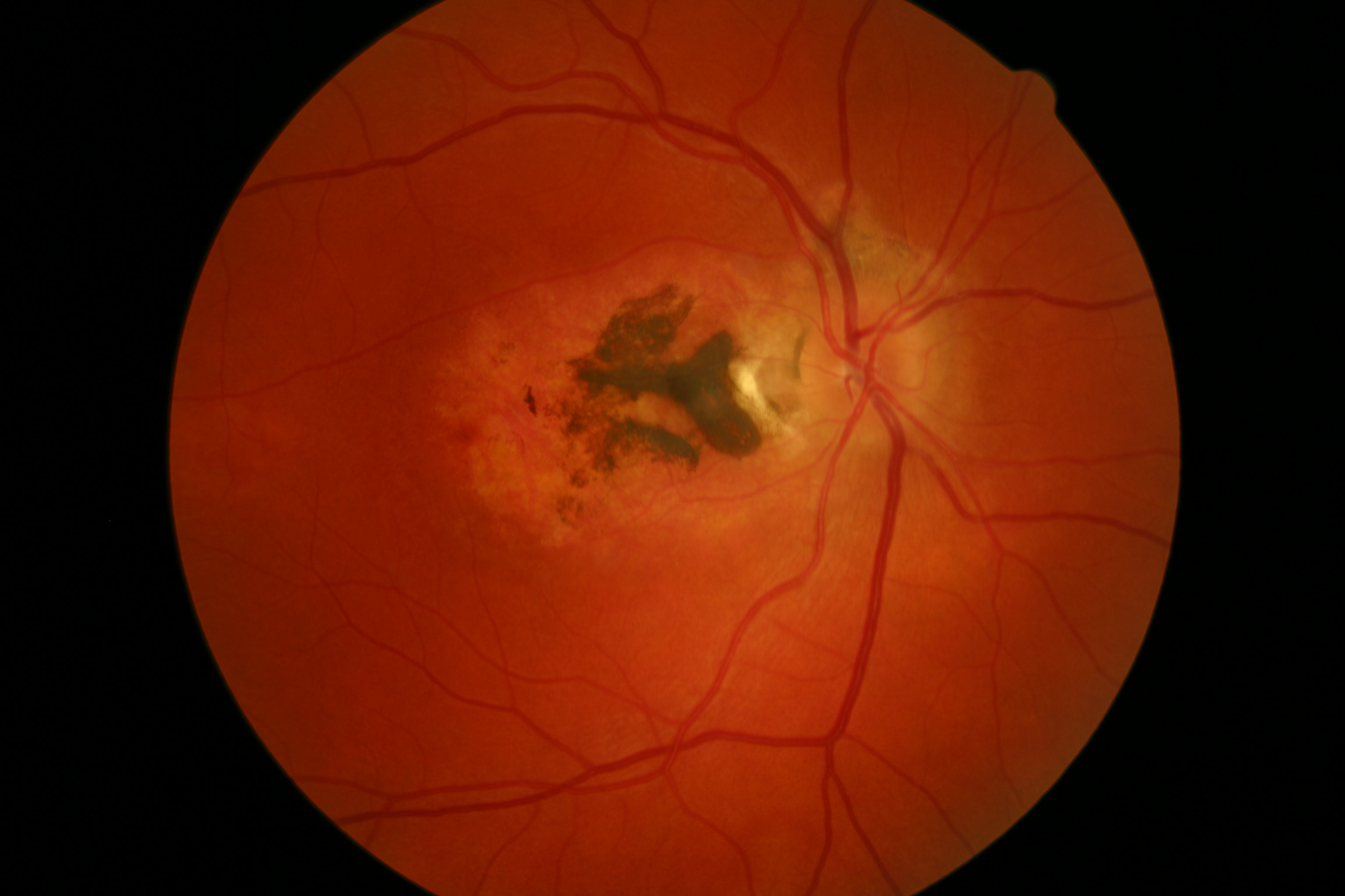 Ocular larva migrans granuloma via toxocara canis infection from newborn puppies, onset date 1976